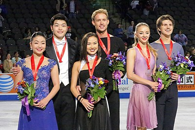 The ice dancing podium at the 2014 Skate America. From left: Maia Shibutani / Alex Shibutani (2nd), Madison Chock / Evan Bates (1st), Alexandra Stepanova / Ivan Bukin (3rd).